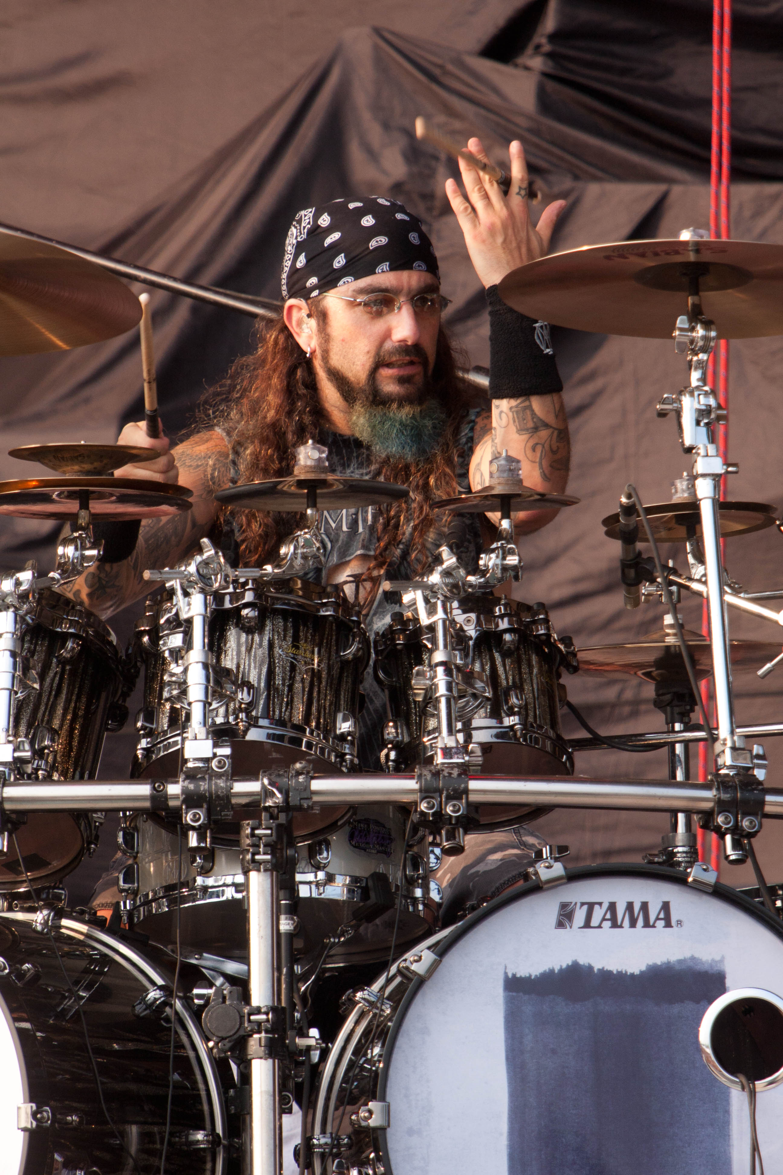 Mike Portnoy at Ottawa Bluesfest 2010.